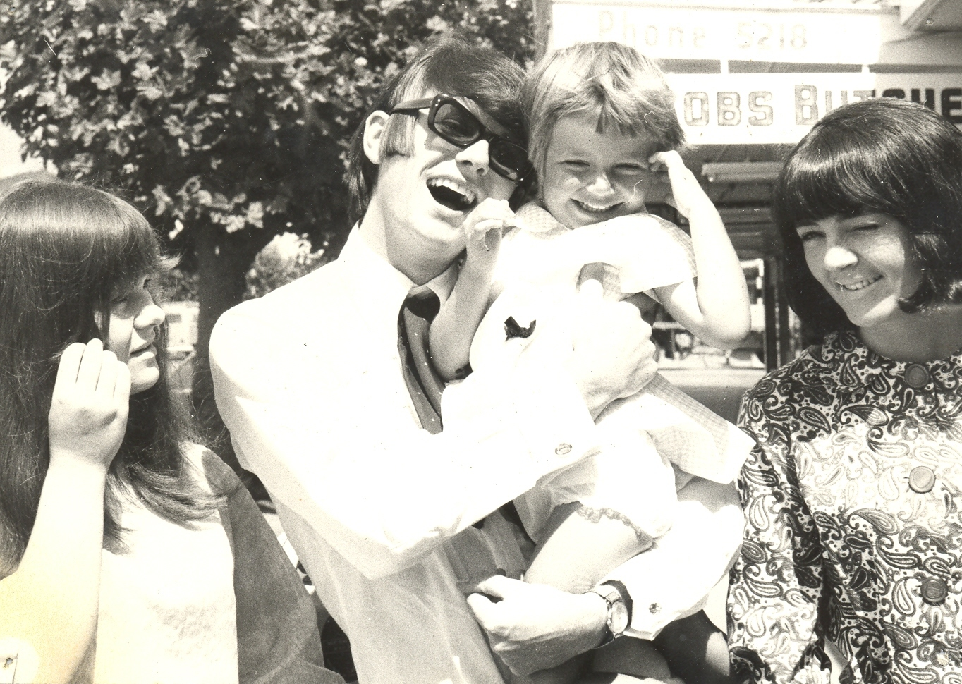 4 yr old fan, Marcene Trass meets her favourite television star, pop singer Mr Lee Grant.